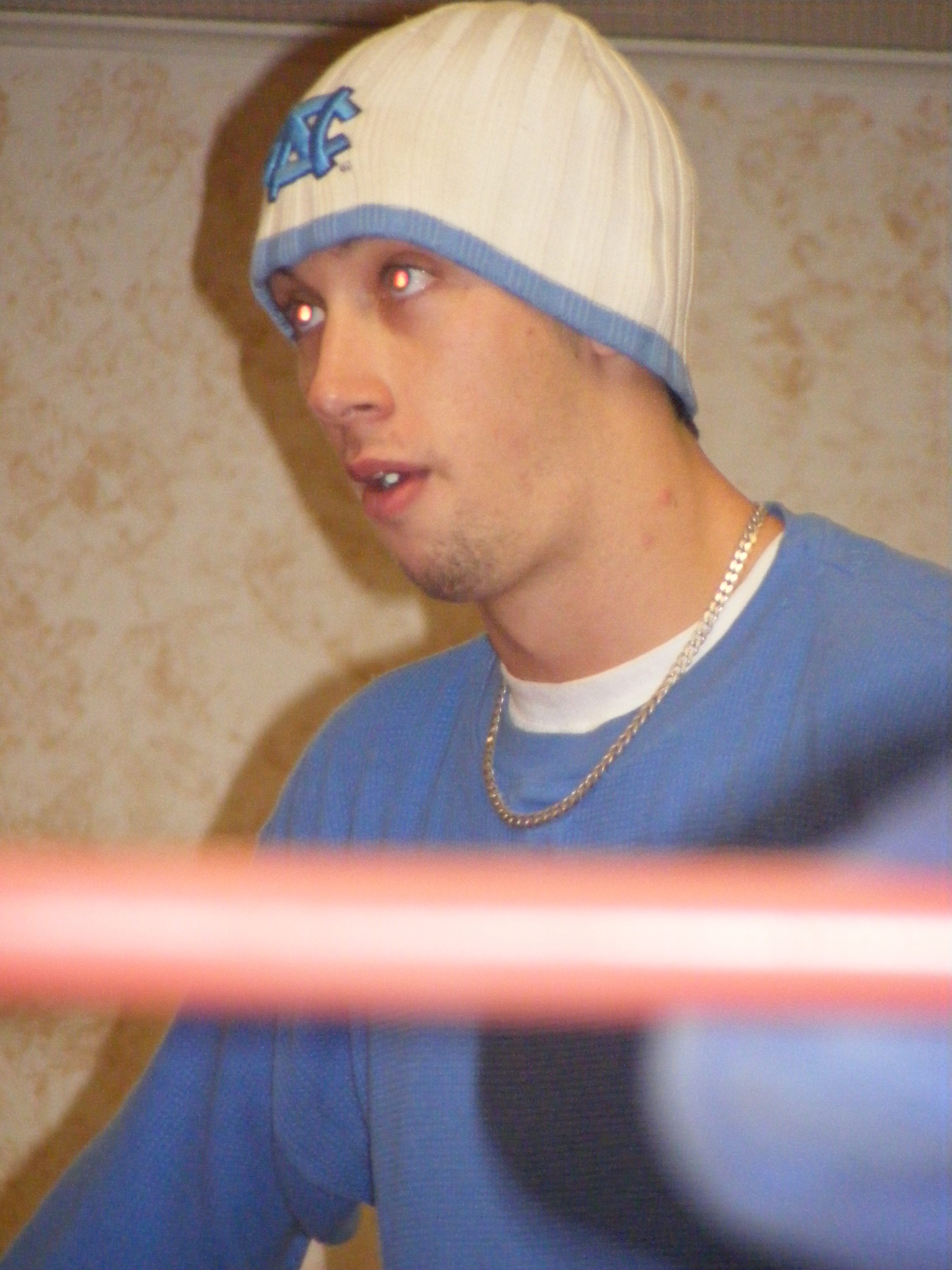 Professional wrestler Jigsaw sans mask at a Chikara show on November 22, 2008 in Wallingford, CT.